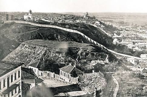 The hill predominantly partly belonged to the Florovsky monastery with the Troitskaya cemetery church on the top.